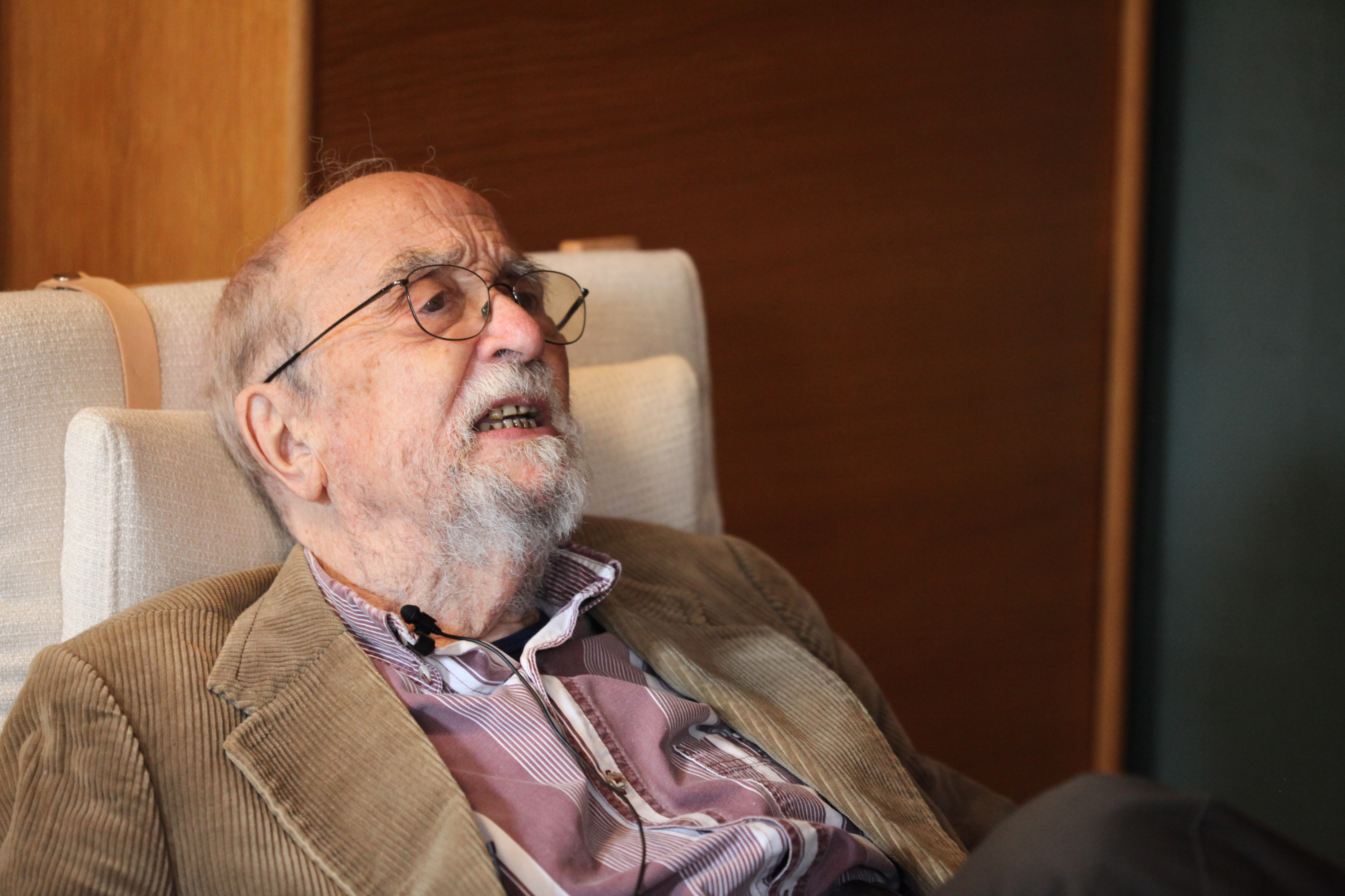 Portrait of Jean-Marie Souriau, december 27th, 2010 with Innovaxiom.